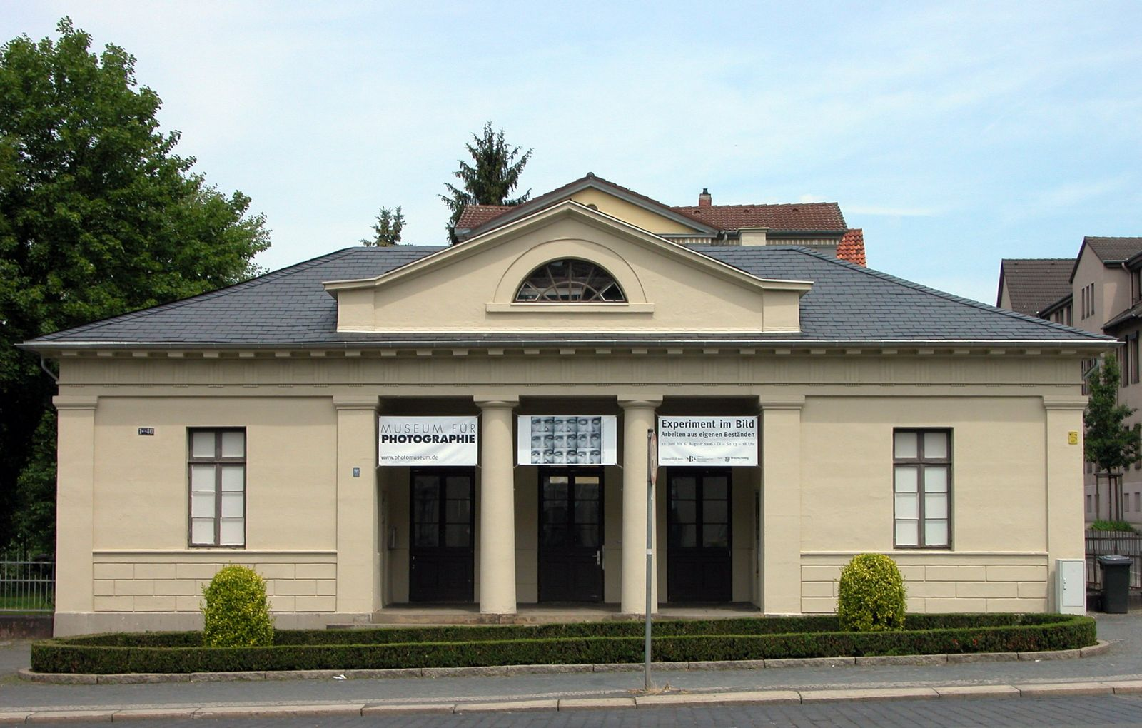 Brunswick, Germany: Museum for Photography.